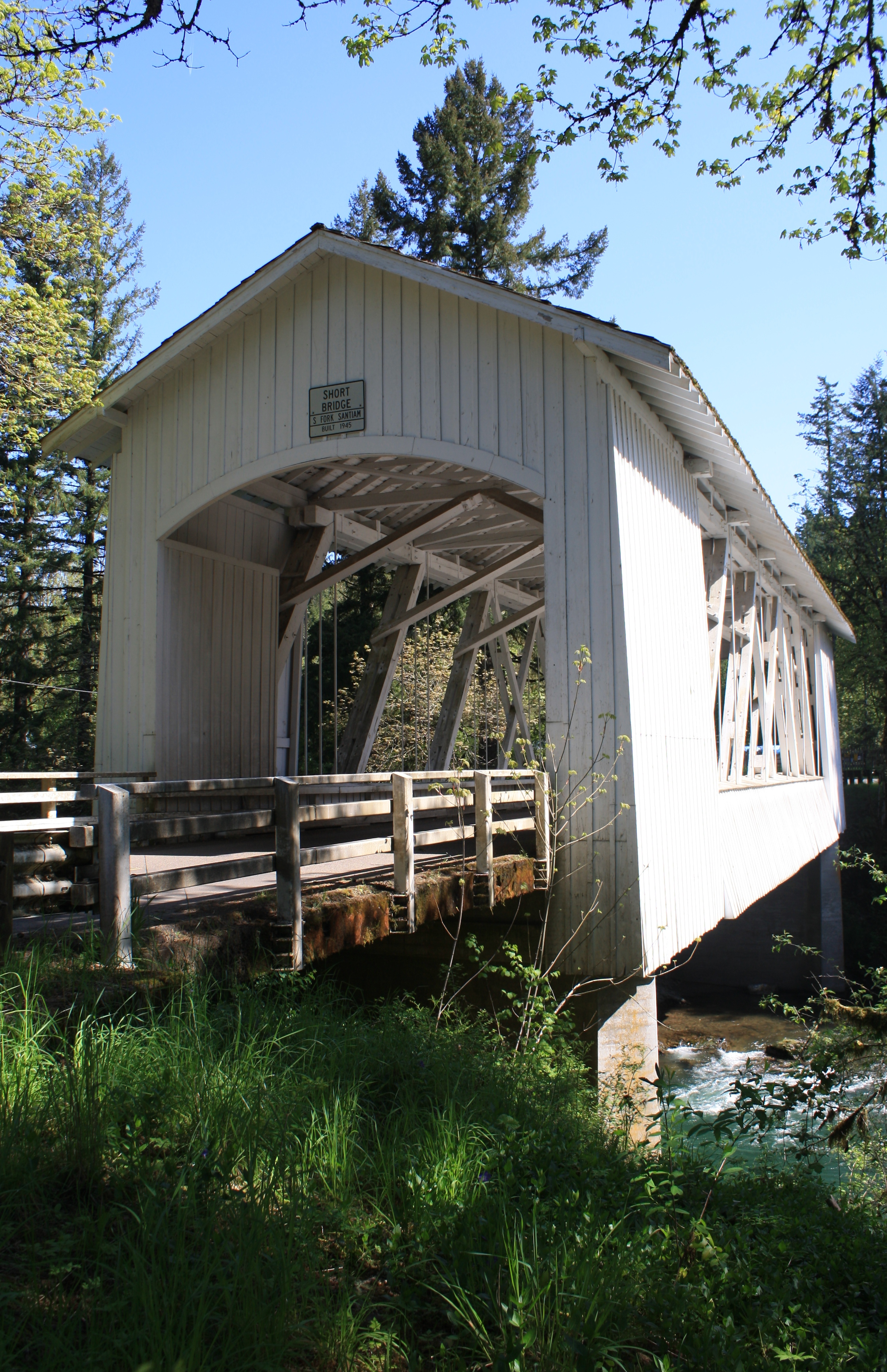 The Short Covered Bridge crossing the South Santiam River east of Sweet Home, Oregon